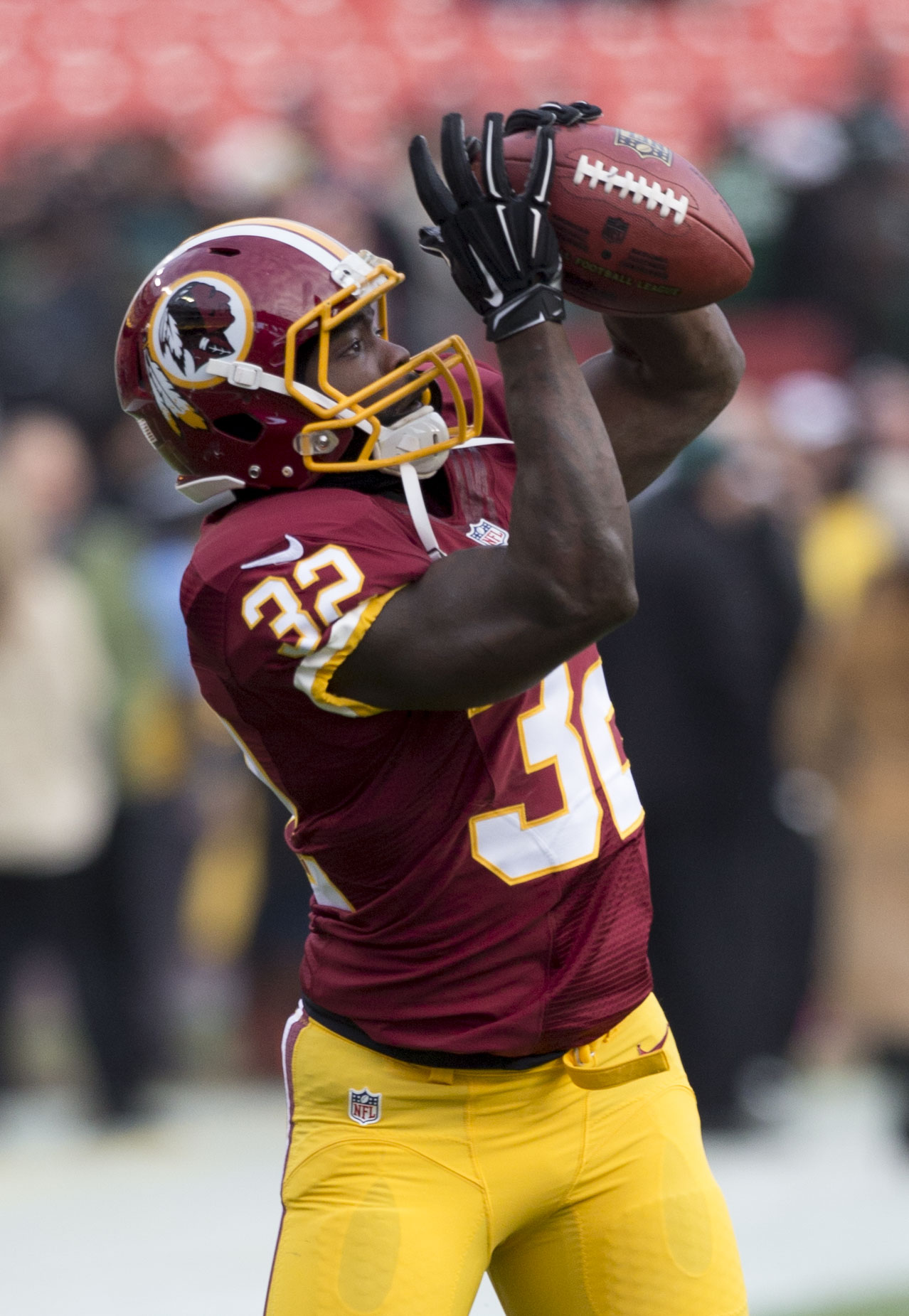 Washington Redskins running back, Silas Redd, in a game against the Philadelphia Eagles on December 20, 2014.